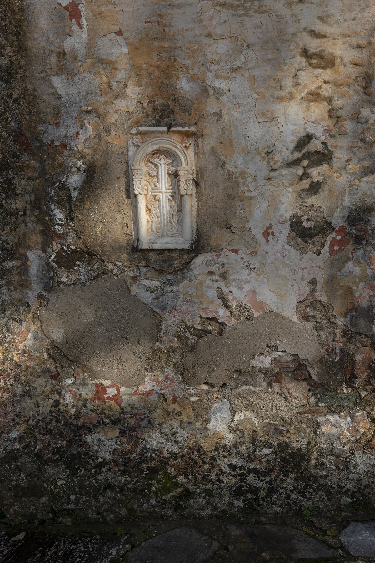 Kaisariani Monastery Athens, cross on exterior wall, December 13, 2019